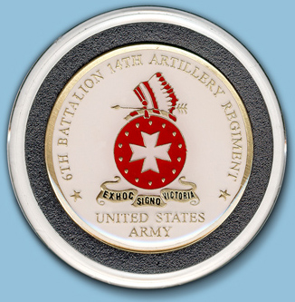 Direct Digital Scan of 6th Battalion 14th Field Artillery challenge coin (face)